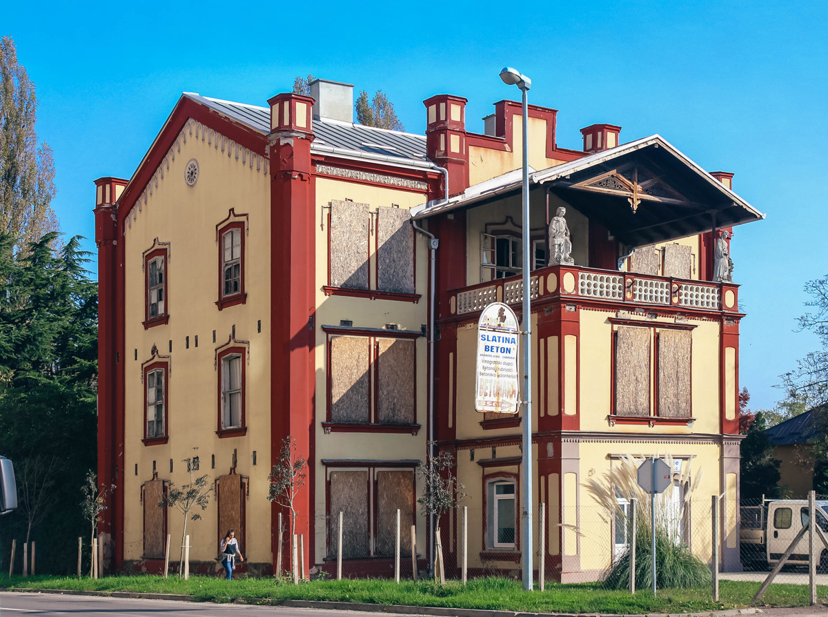 Castle Drašković